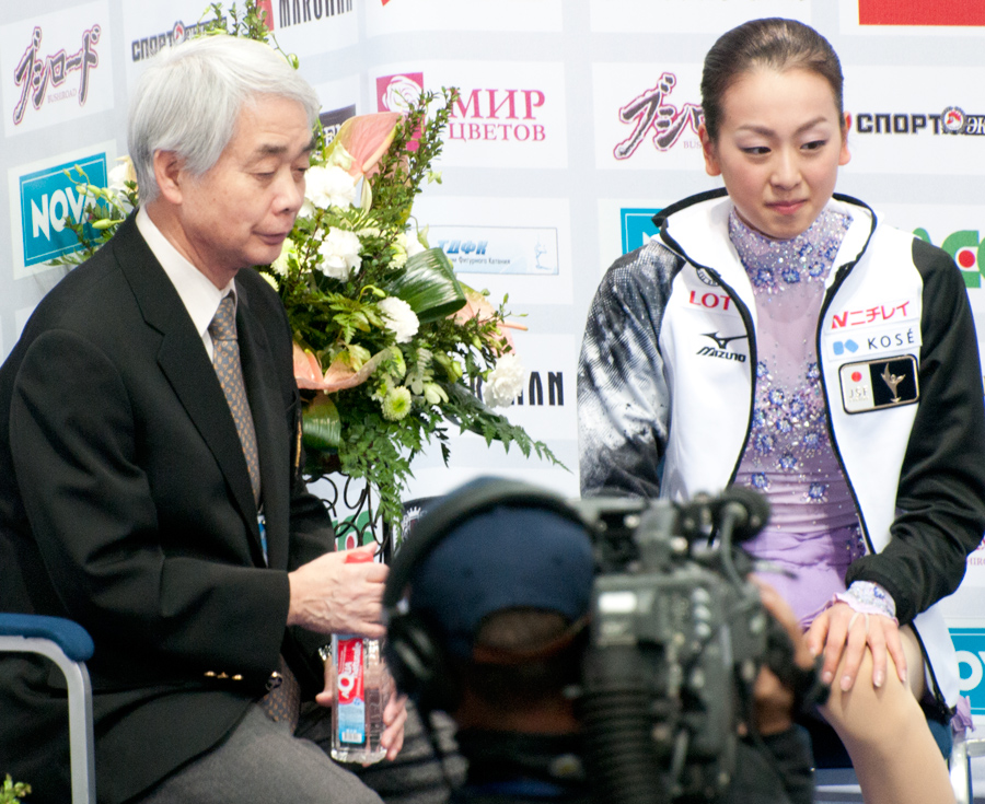 2011 Cup of Russia, free skating.